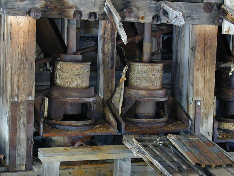 2 of the 4 Nissen stamps in the mill Sound Democrat Mill, Silverton CO P6080359.JPG